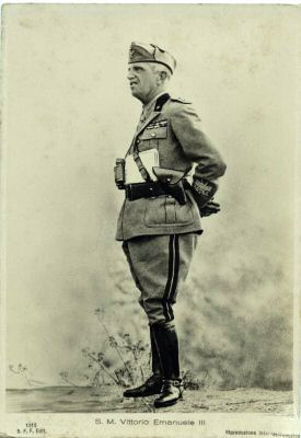 King Vittorio Emanuele III in his uniform as Marshal of Italy (1936)